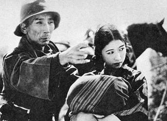 Keiko Takatsu in Nani ga kanojo o sô saseta ka (1930) ... aka What Made Her Do It? (International: English title)